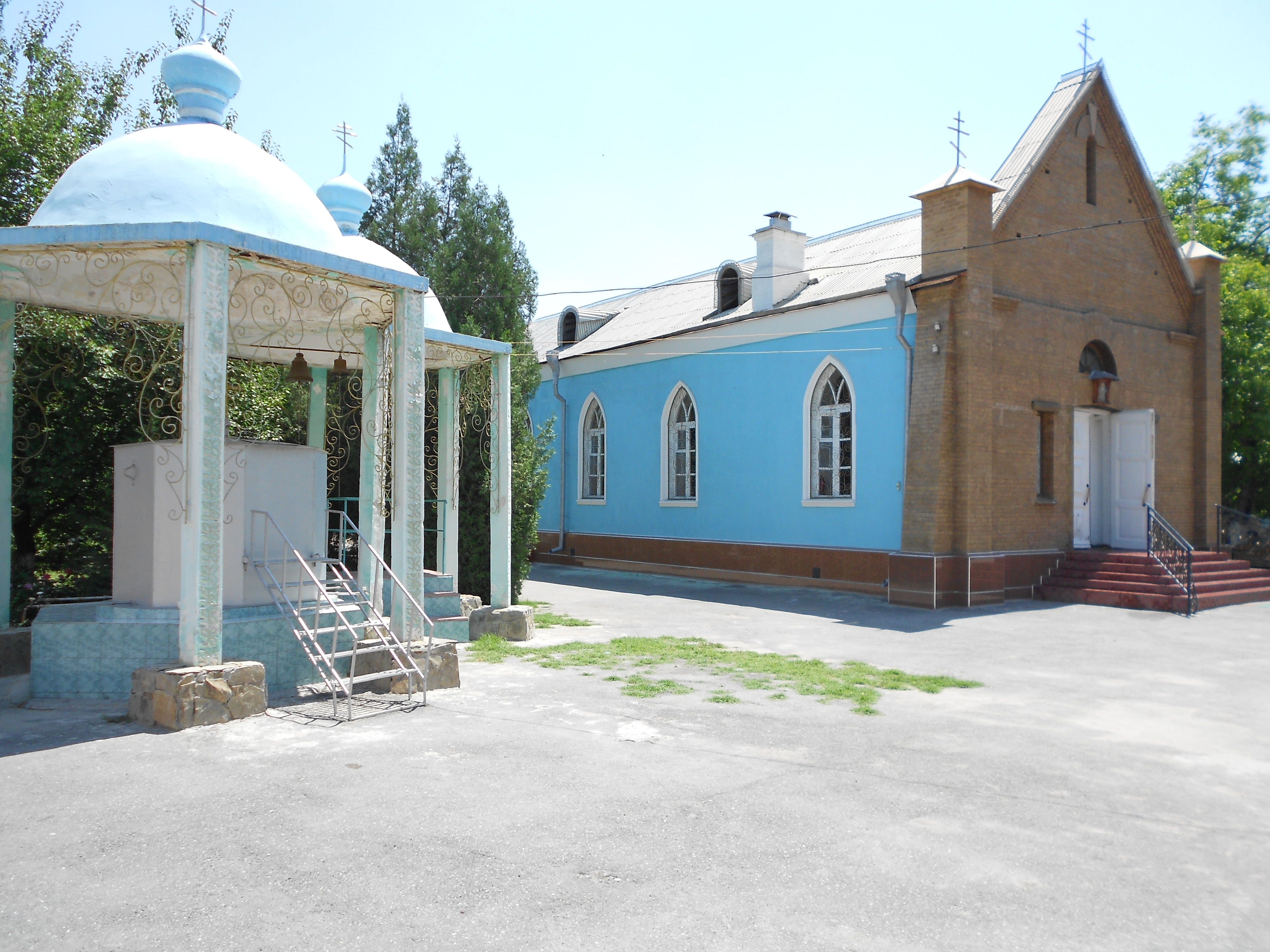 Church of St. Sergiuy Radonezhkogo in Fergana.